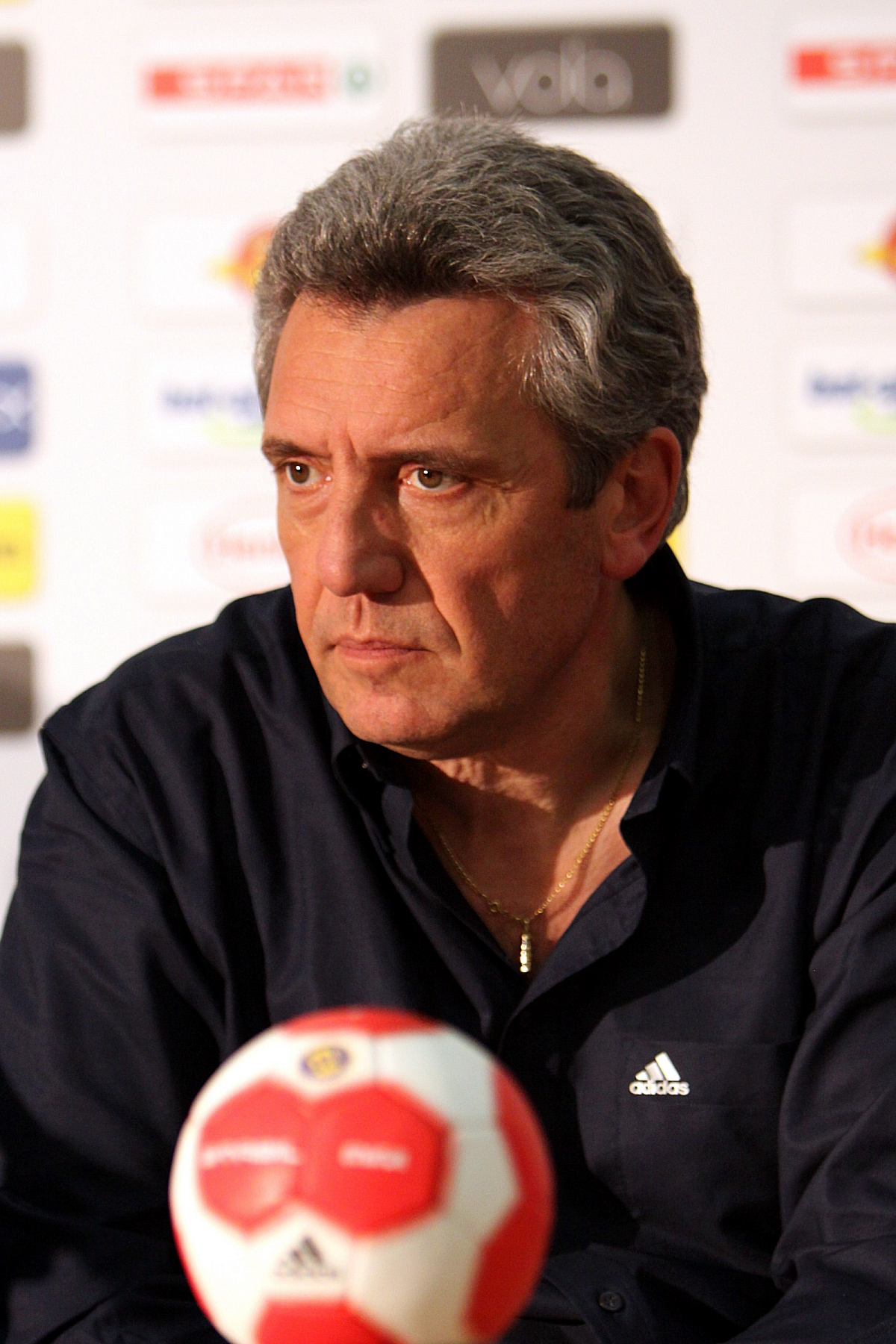 Claude Onesta (Teamchef), France national handball team